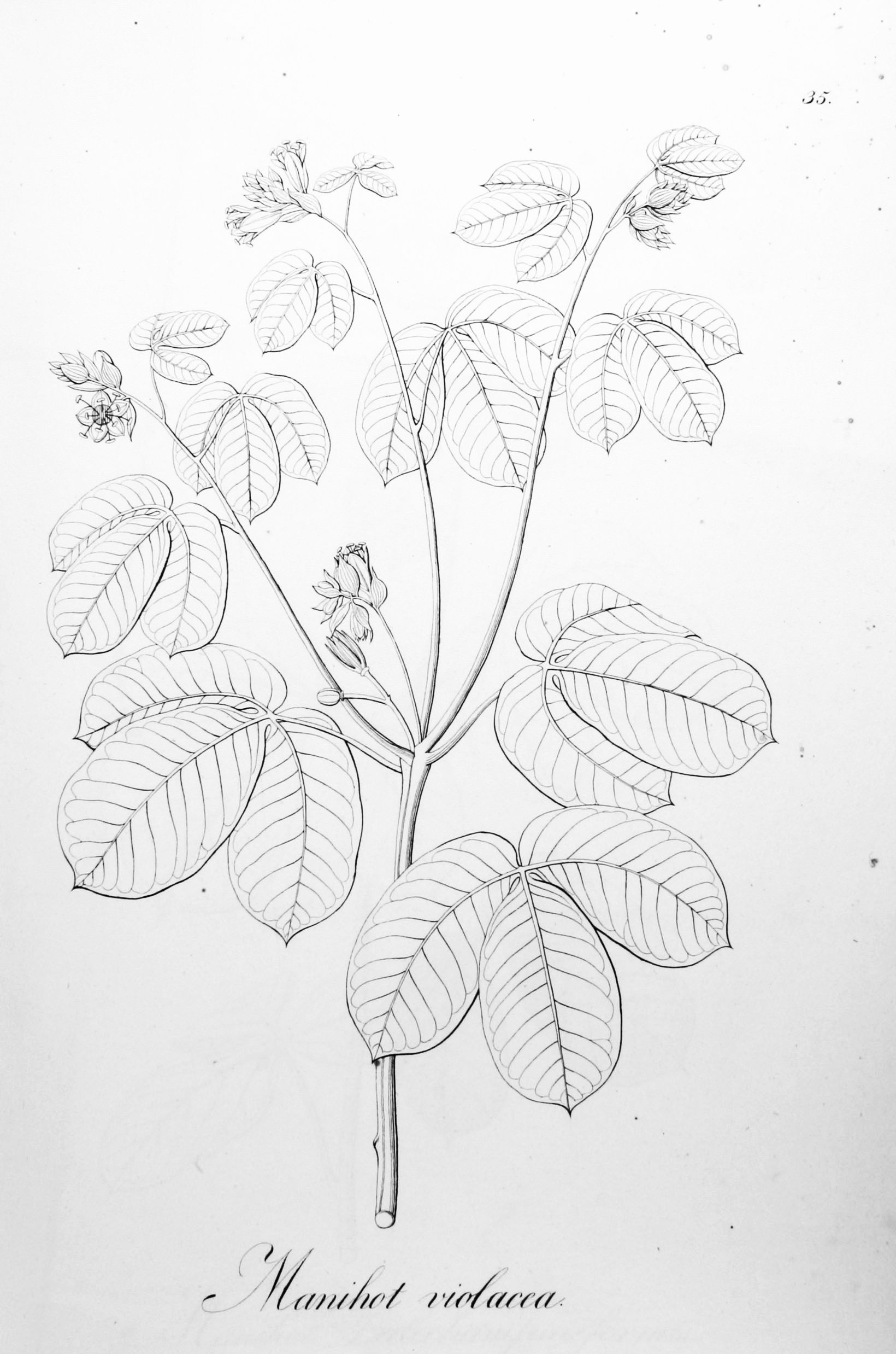 Manihot violacea Plate from book